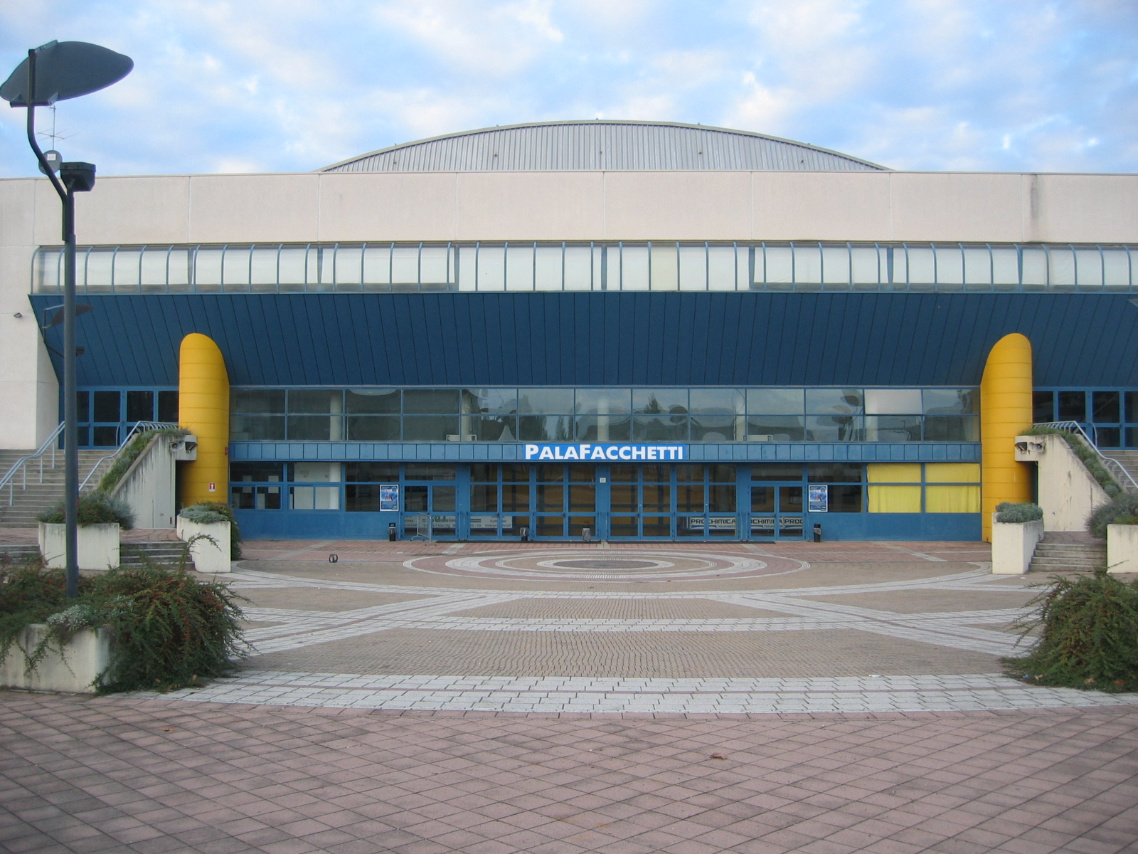 Palafacchetti, Treviglio